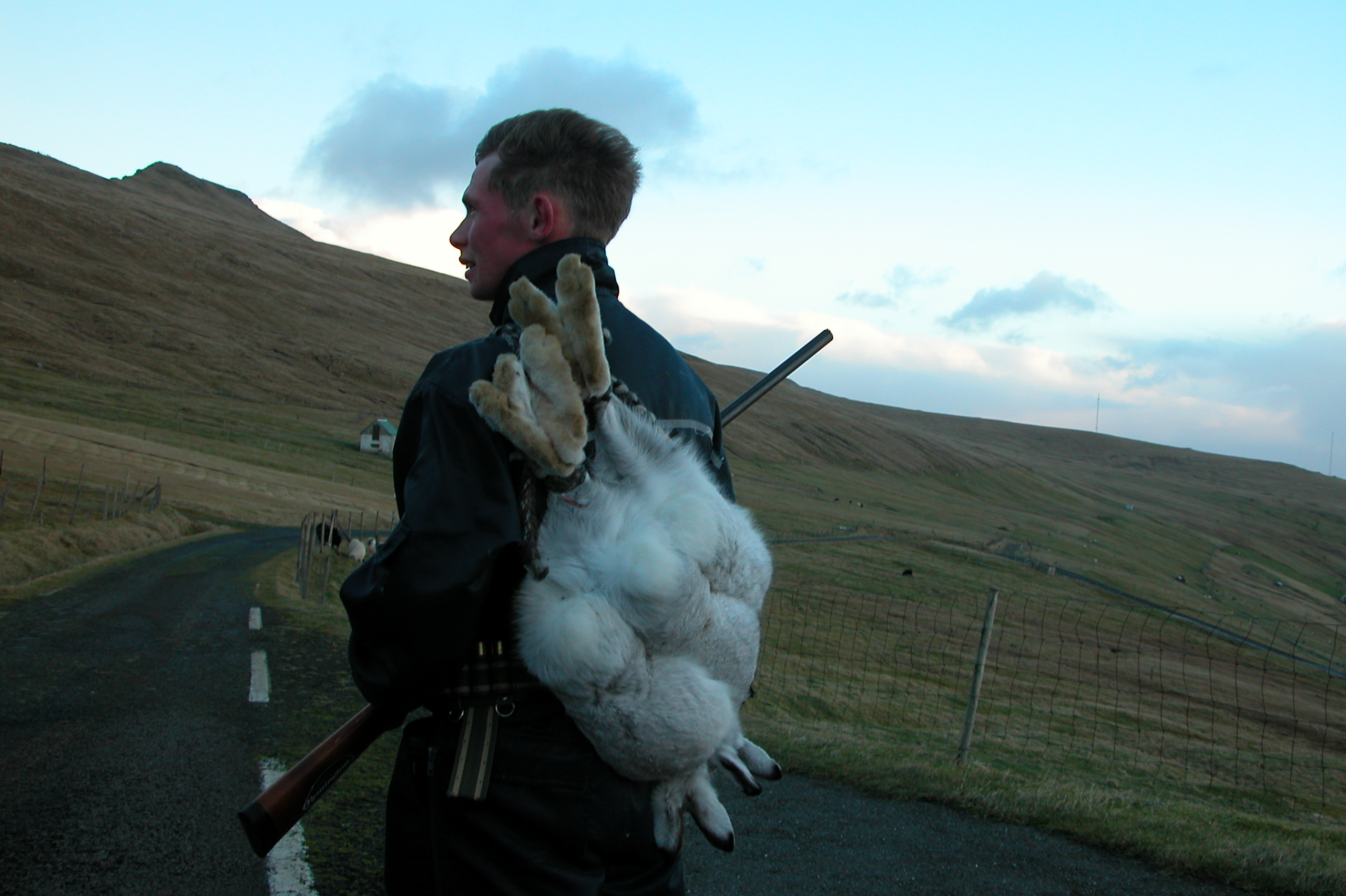 Hunter from the Faroese Islands, carrying mountain hares (Lepus timidus)